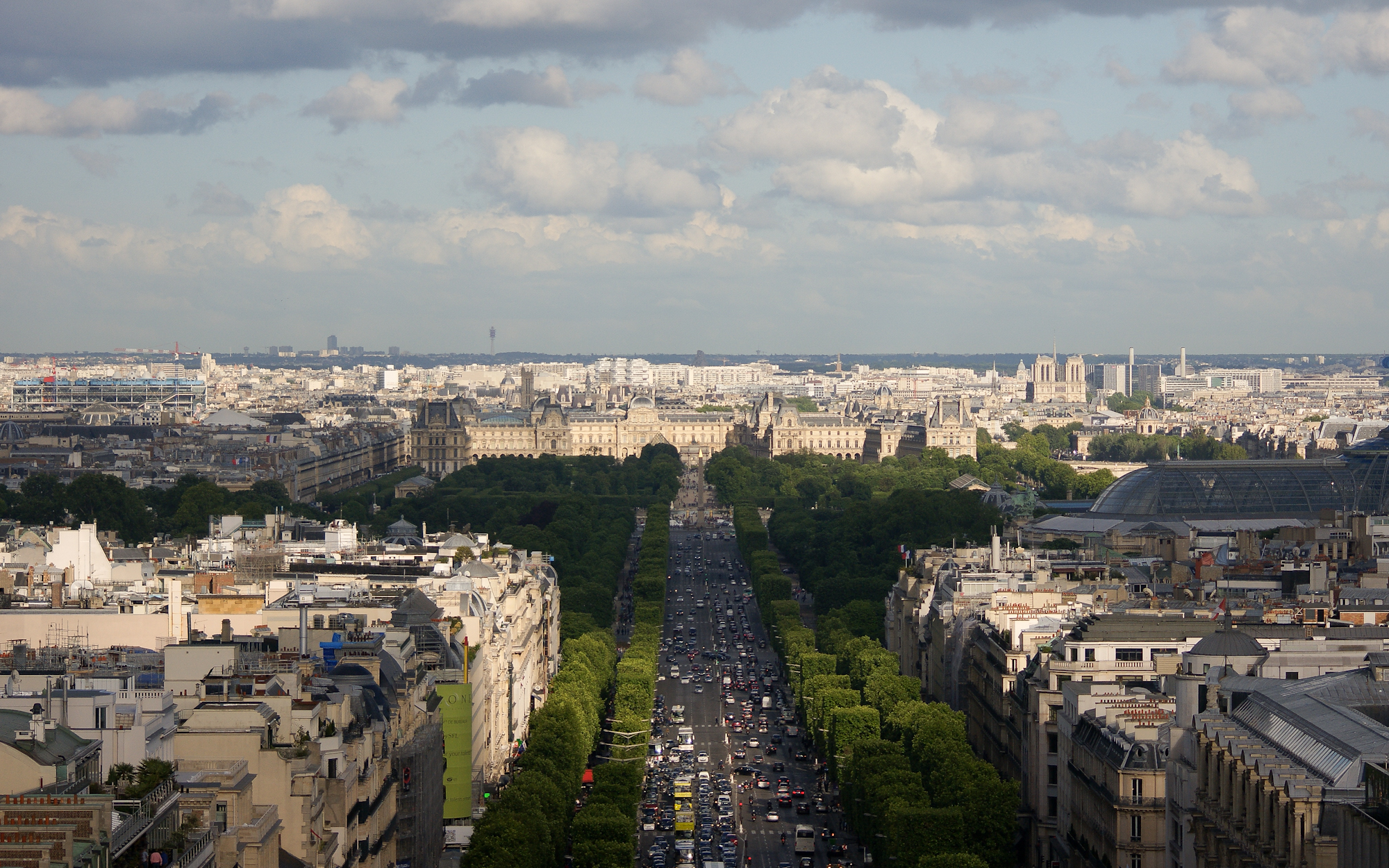 Place de la Concorde, seen from Arc de Triomphe